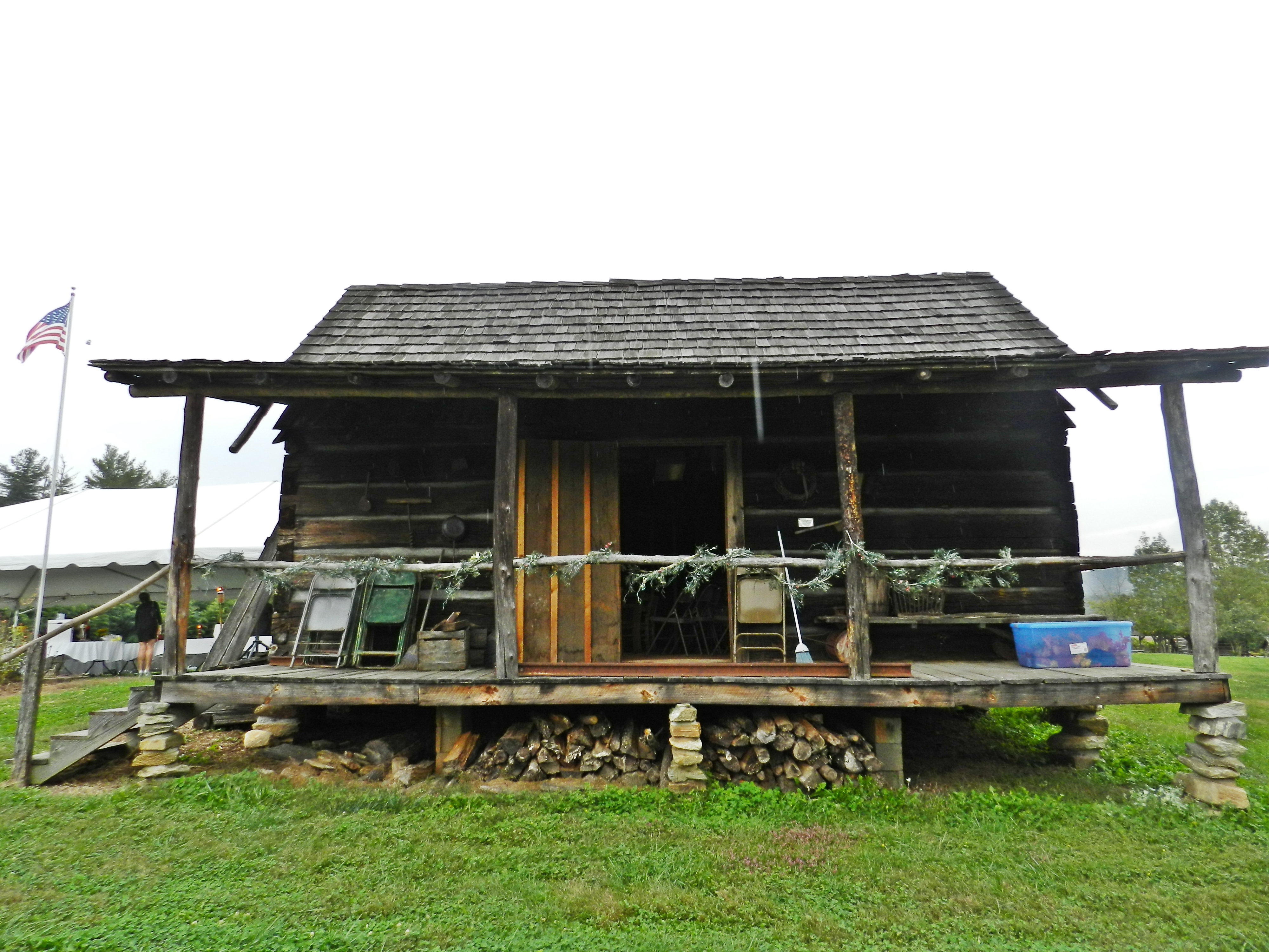 This cabin on the Whippoorwill Academy and Village in Ferguson, houses the Tom Dooley Art Museum.